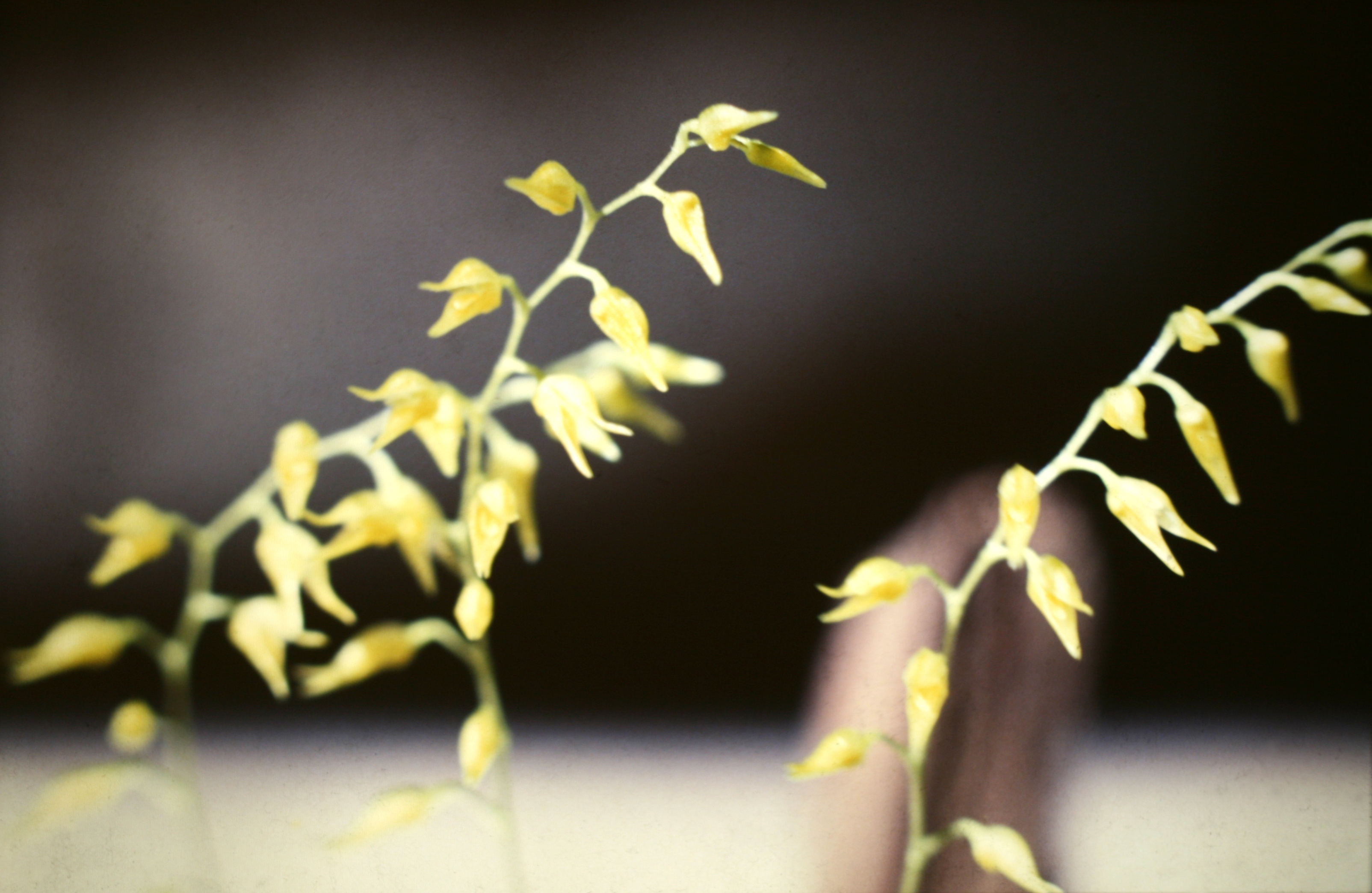 Pleurothallis grobyi , Suriname.